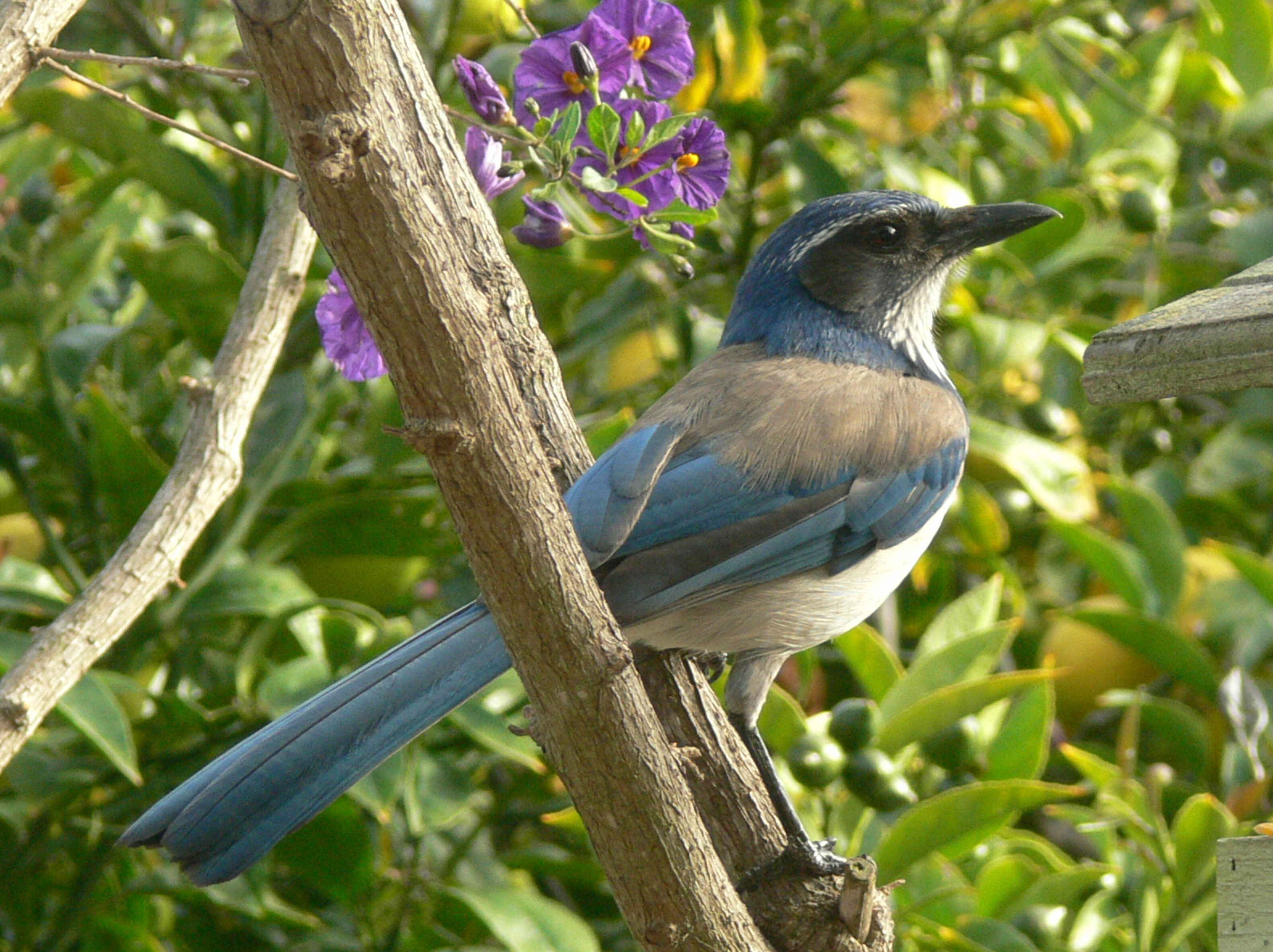 Aphelocoma californica In my front yard. I've fed this guy peanuts in the past and now, if I leave the front door open, he'll come into my living room looking for more.